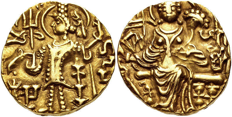 Kidara gold coin circa 350-385 CE. AV Stater (18mm, 7.78 g, 12h). Kidara, nimbate and helmeted, standing facing, head left, sacrificing over altar to left and holding filleted standard; filleted trident to left, “Kushana Kidara Karan” in Brahmi across fields / Ardoxsho, nimbate, seated facing on throne, holding filleted investiture garland and cornucopia; tamgha to right.